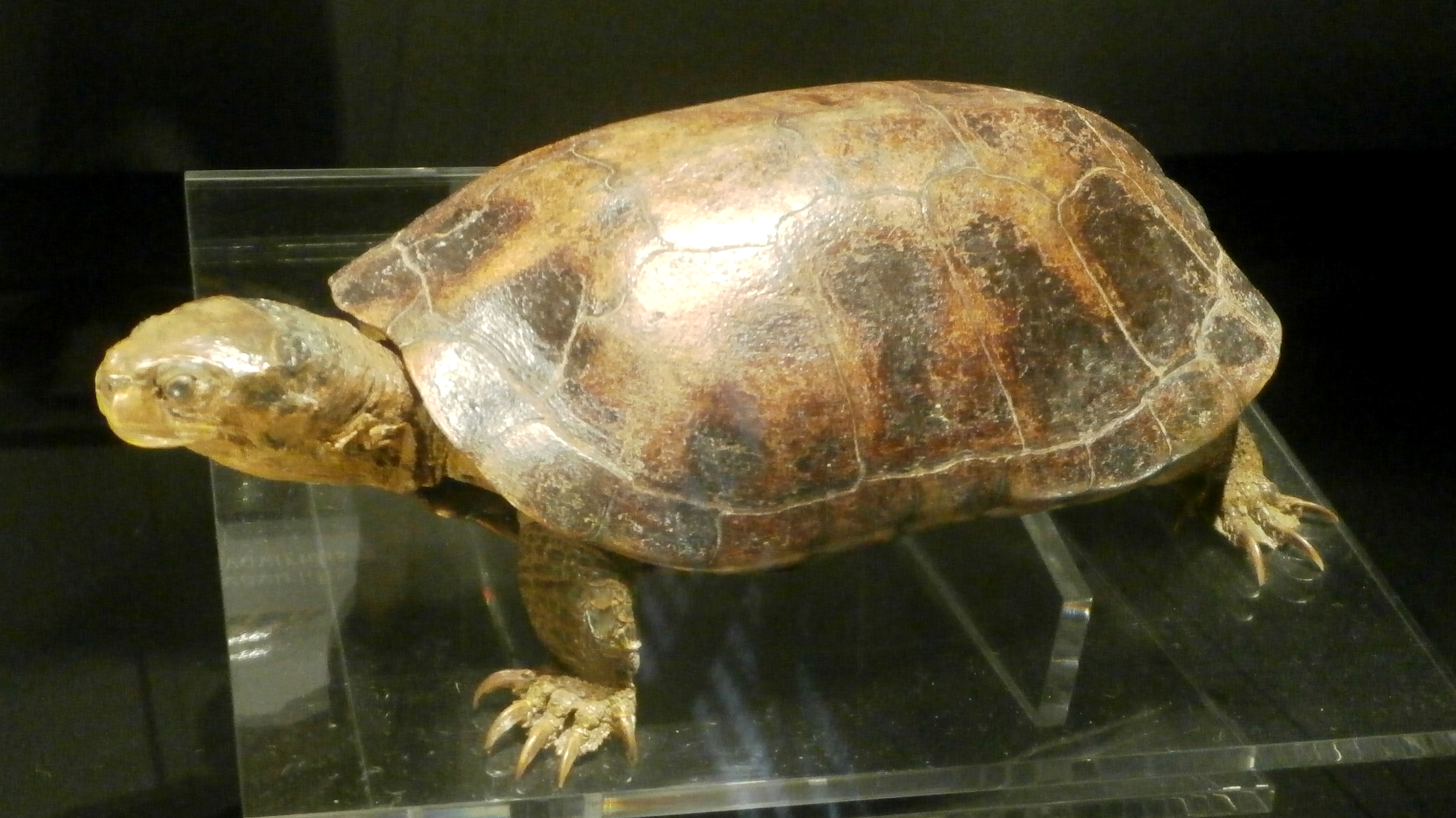 Stuffed specimen of Mauremys mutica kami. Exhibit in the National Museum of Nature and Science, Tokyo, Japan.